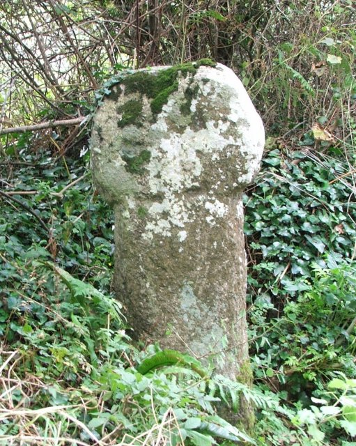 Trembath Cross This unusual granite cross stands beside the A30 Land's End road not far from Penzance.